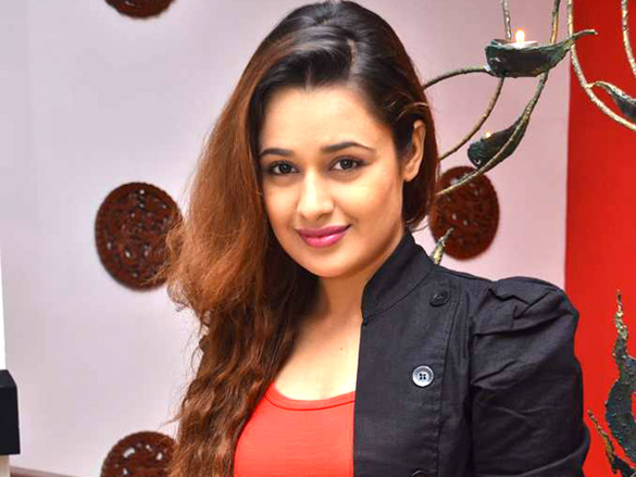 Yuvika Chaudhary at Vong Wong's 5th anniversary bash